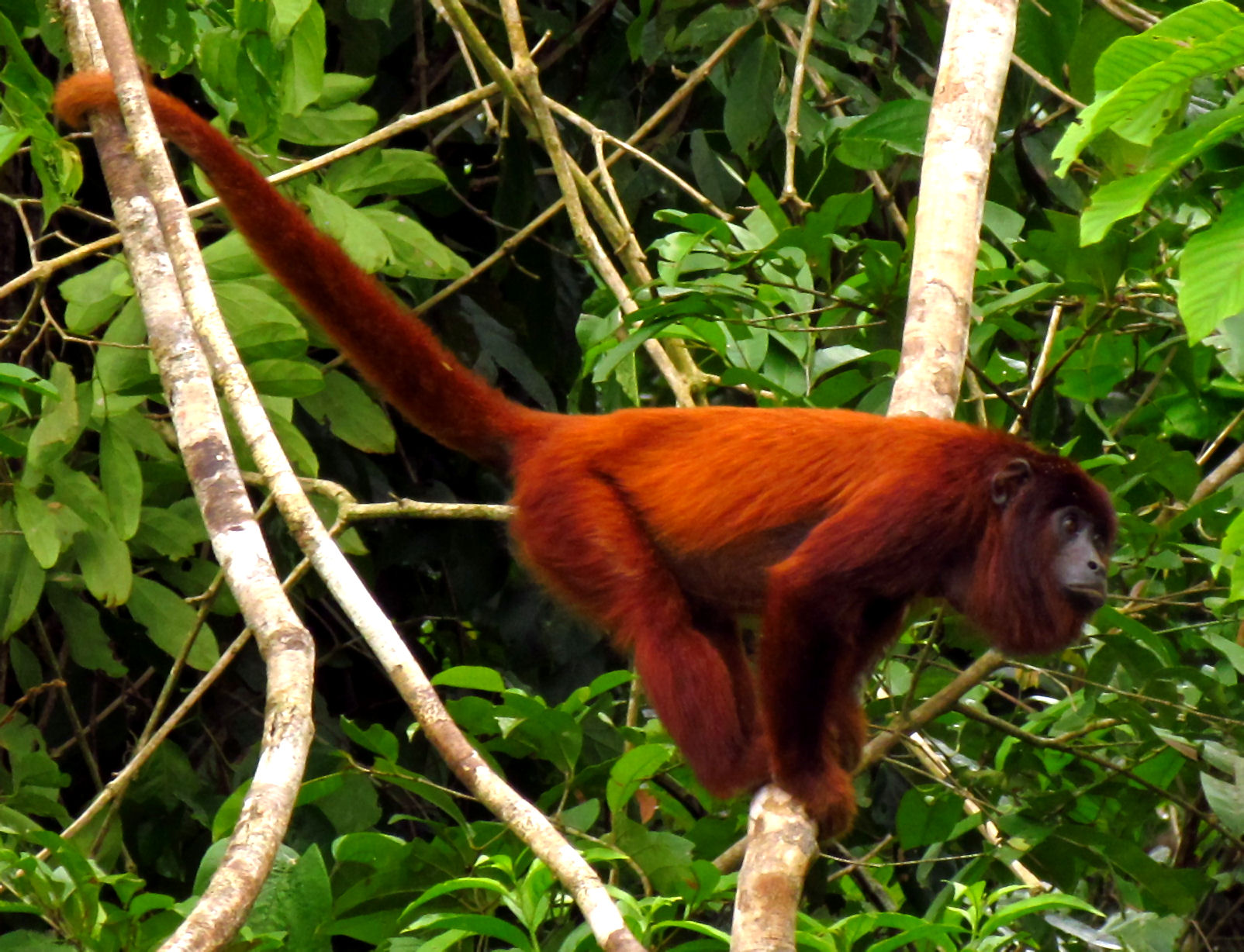 Purús Red Howler Monkey (Alouatta puruensis), Tambopata Park, Peru IUCN: Alouatta puruensis Lönnberg, 1941 (old web site) (Least Concern) Mammal Species of the World (v3, 2005) link: Alouatta seniculus Linnaeus, 1766 (Syn. Alouatta seniculus puruensis)